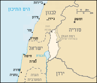 Map of Golan Heights in Hebrew.